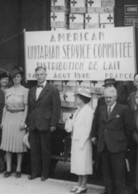 Martha and Waitstill Sharp (on left), with 14 tons of milk products to distribute to children in France at Pau and around, August 1940.